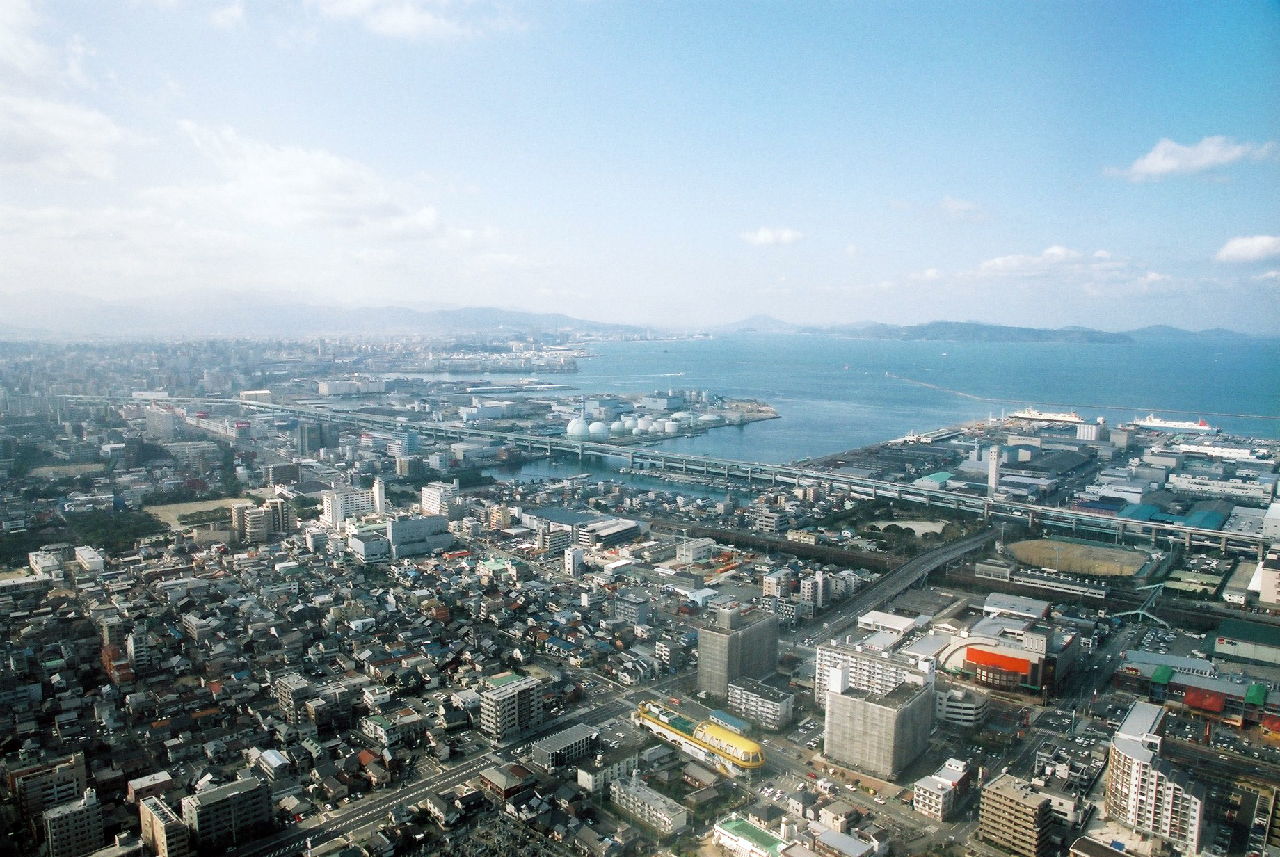 Port of Hakata. (2007/02/12 In Flight, JL3592, Fukuoka, JAPAN)